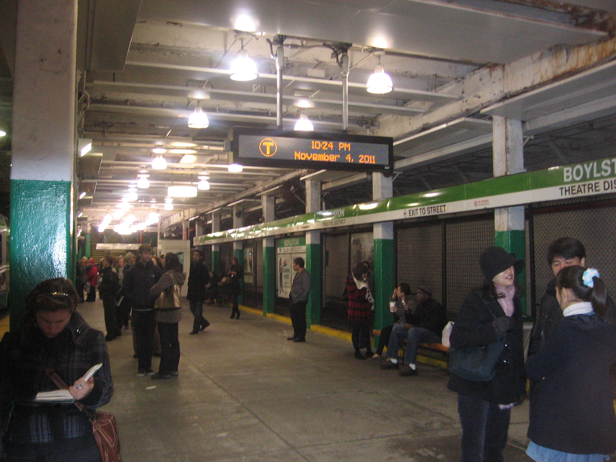 Outbound platform at Boylston station